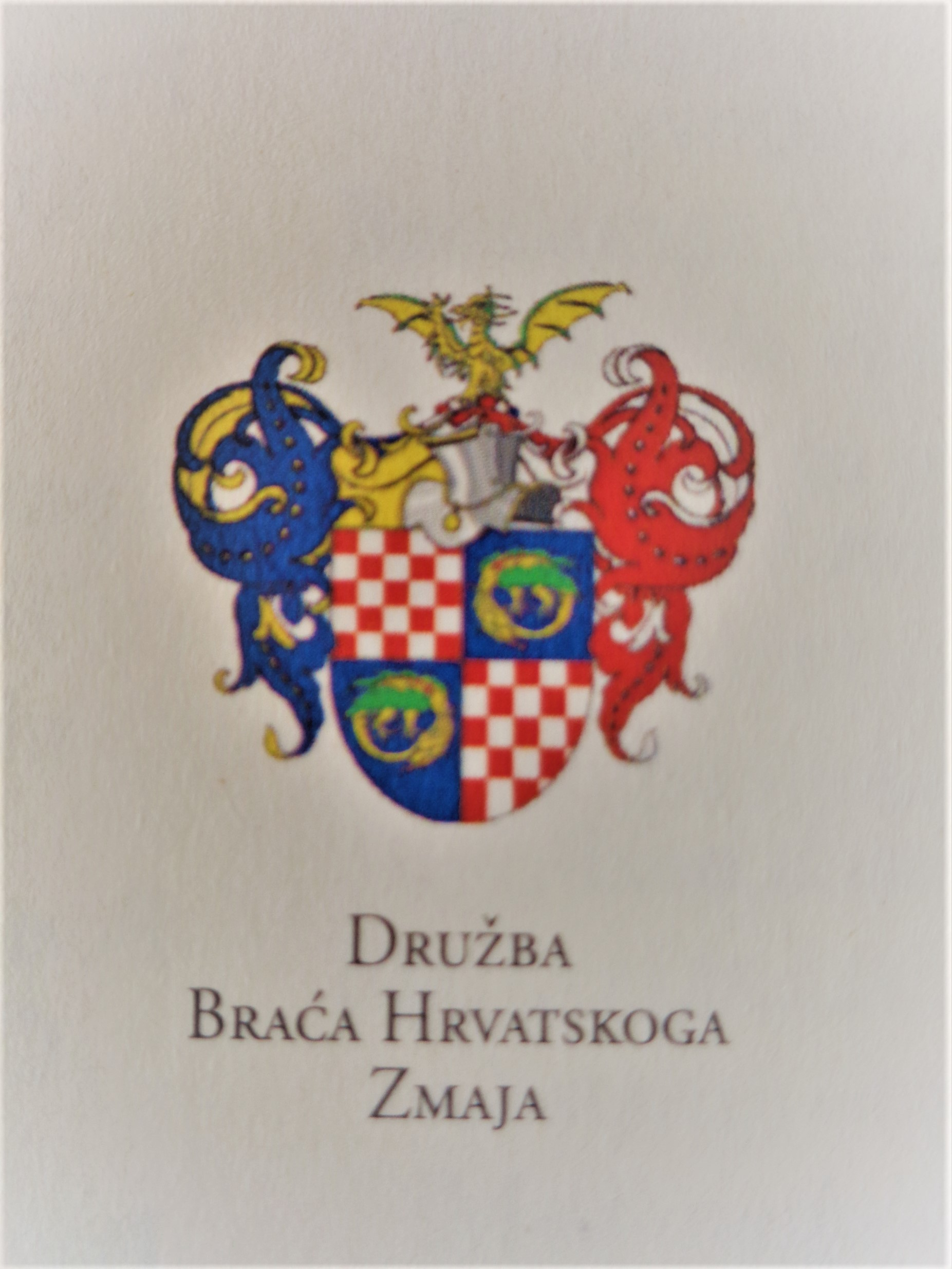 Coat of arms of the Brethren of the Croatian Dragon